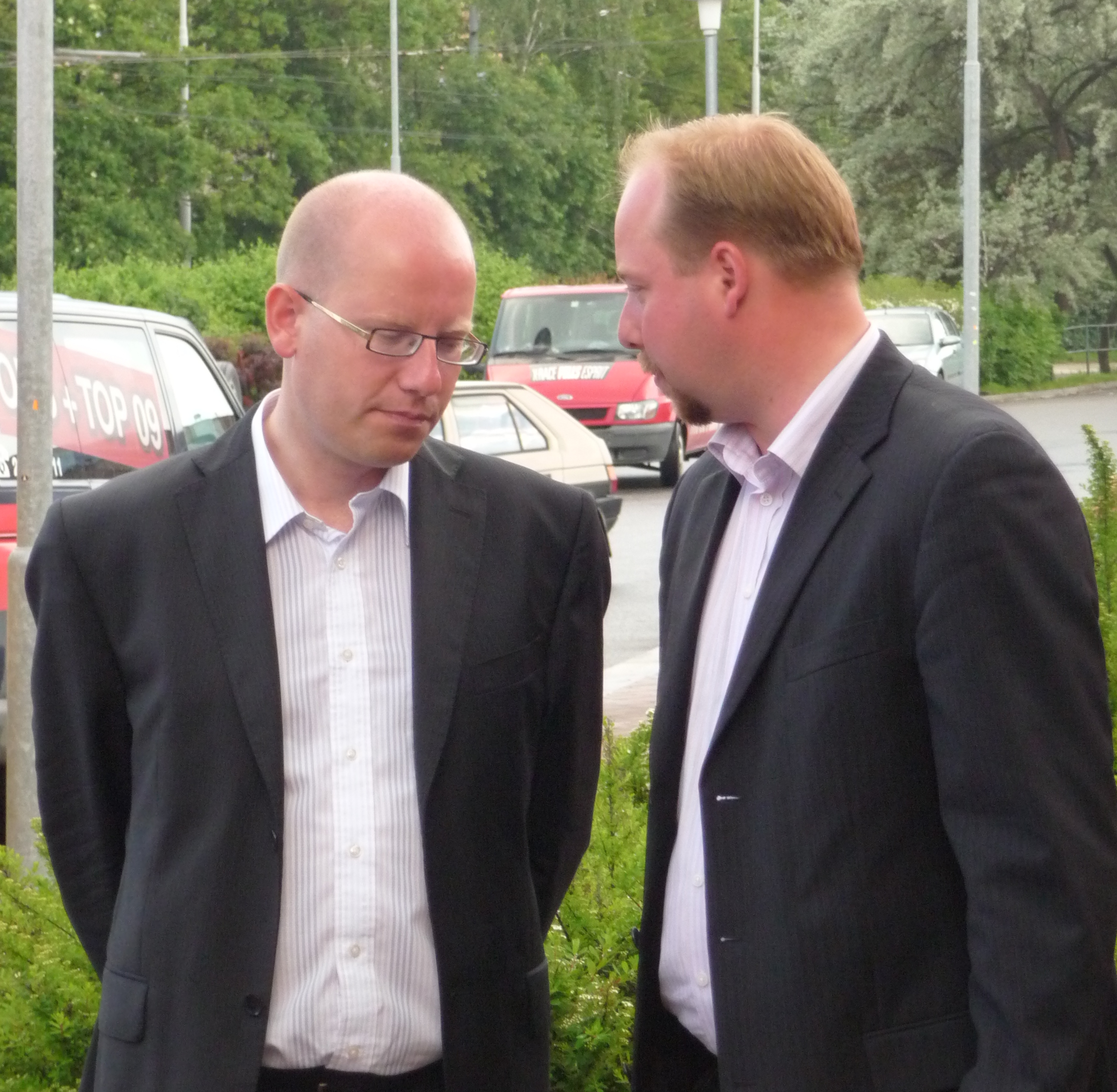 Jeroným Tejc and Bohuslav Sobotka on the ČSSD election meeting "Grill party" in Brno-Bystrc